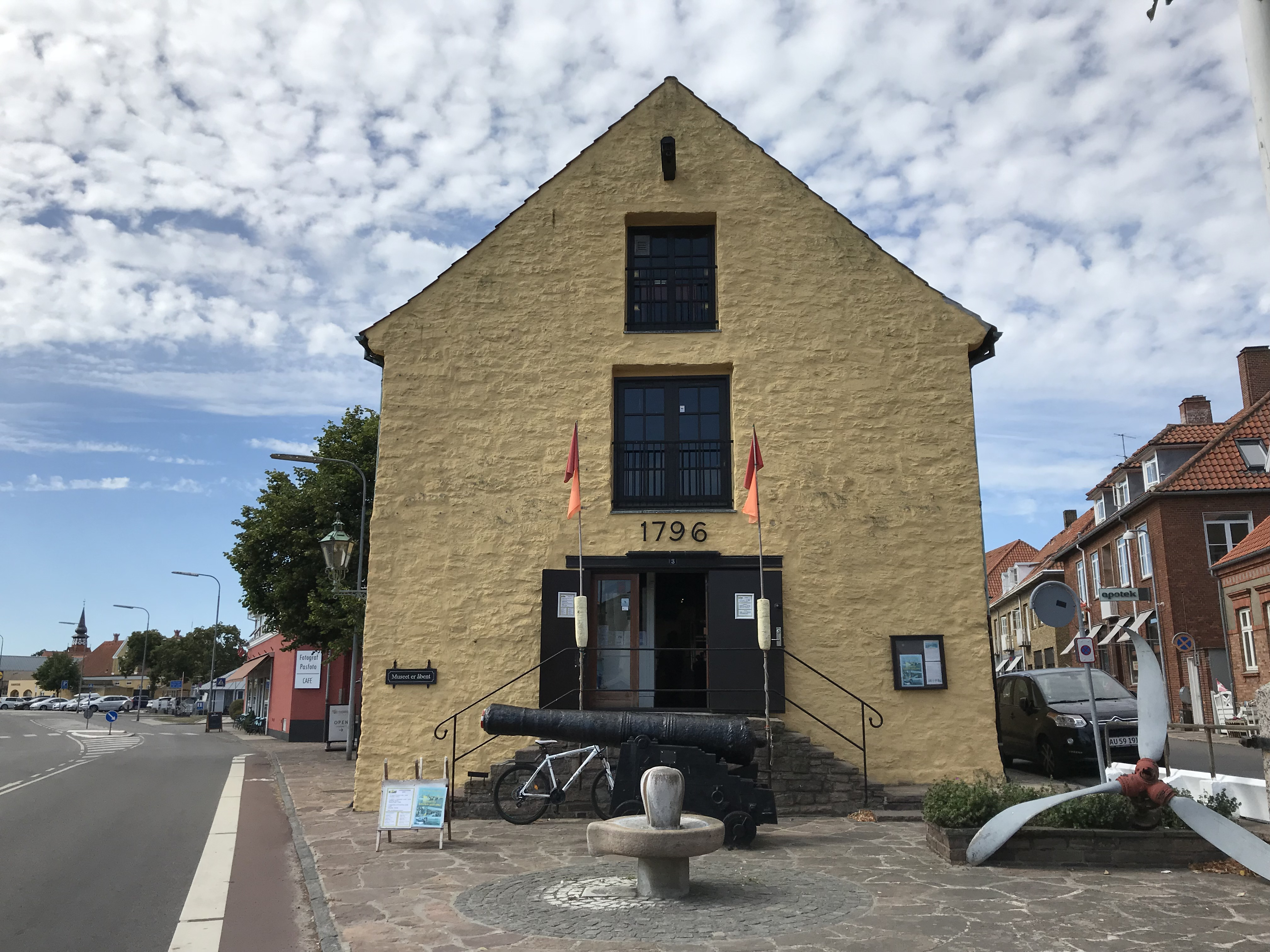 Nexø Museum, Bornholm, Denmark, on August 7, 2018.